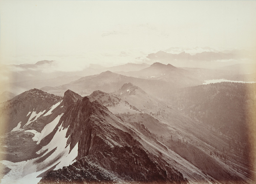 An album by Carleton E Watkins (1829-1916), one of the finest American landscape photographers of the nineteenth century.